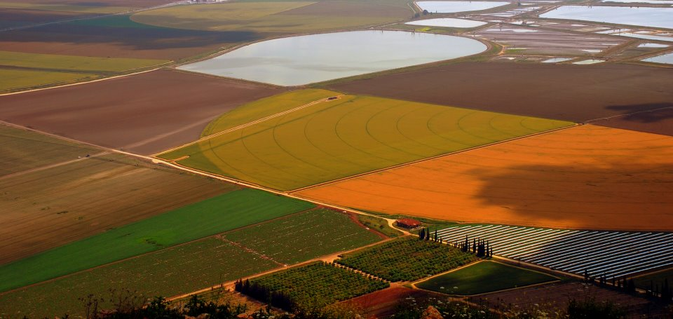 Geography of Israel